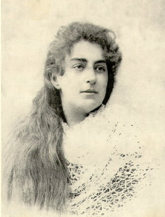 Lidia Stakhievna Mizinova, friend of Anton Chekhov